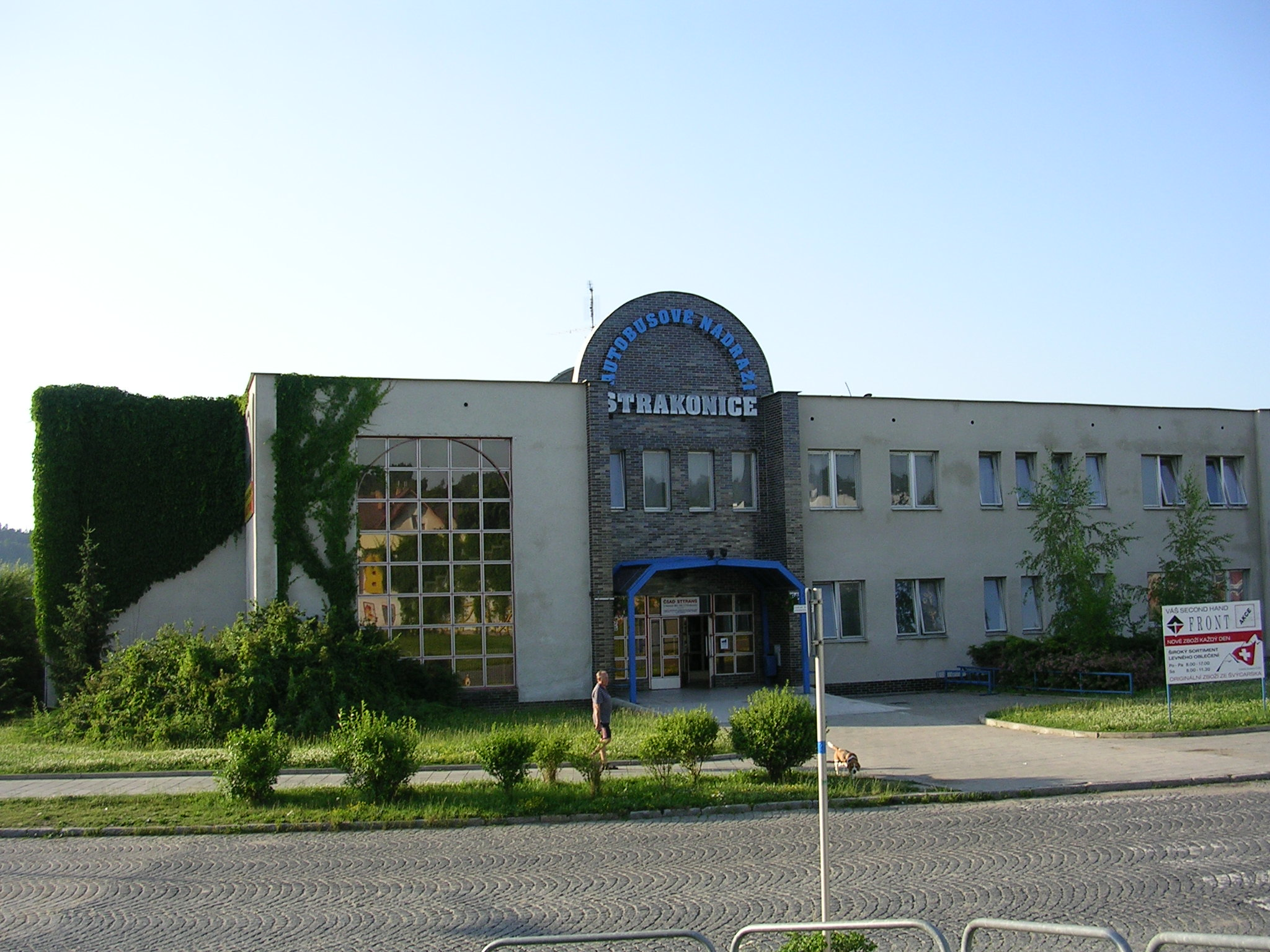 Strakonice, the Czech Republic. Bus station. Terminal building.